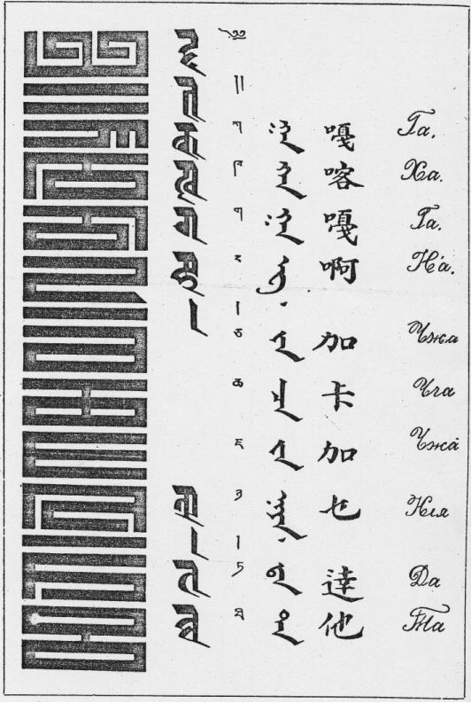 Tibetan Primer of the Phags-pa and Lantsa Scripts, display Phags-pa with Lantsa, Tibetan, (traditional) Mongolian, (Han) Chinese and Cyrillic obtained by a Buriat Cossack officer, Tsokto Garmeyevich Badmazhapov, in 1903[1]